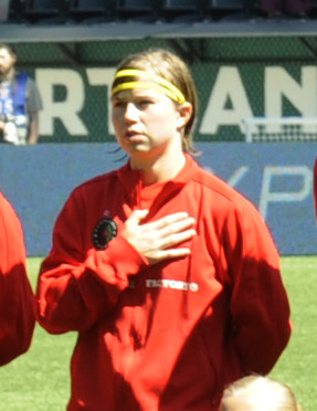 Carrie Cunningham, from Vancouver, Wash., sings the national anthem as the 142nd Fighter Wing Honor Guard presents colors, Aug. 17, 2014, at Providence Park, Portland, Ore., during the match between the Portland Thorns FC and the Seattle Reign FC. The Honor Guard team members are Senior Airman James Whittle, Tech. Sgt. Justin Meininger, Tech. Sgt. George Sanders and Tech. Sgt. Keven Baker. (U.S. Air National Guard photo by Tech. Sgt. John Hughel, 142nd Fighter Wing Public Affairs/Released)